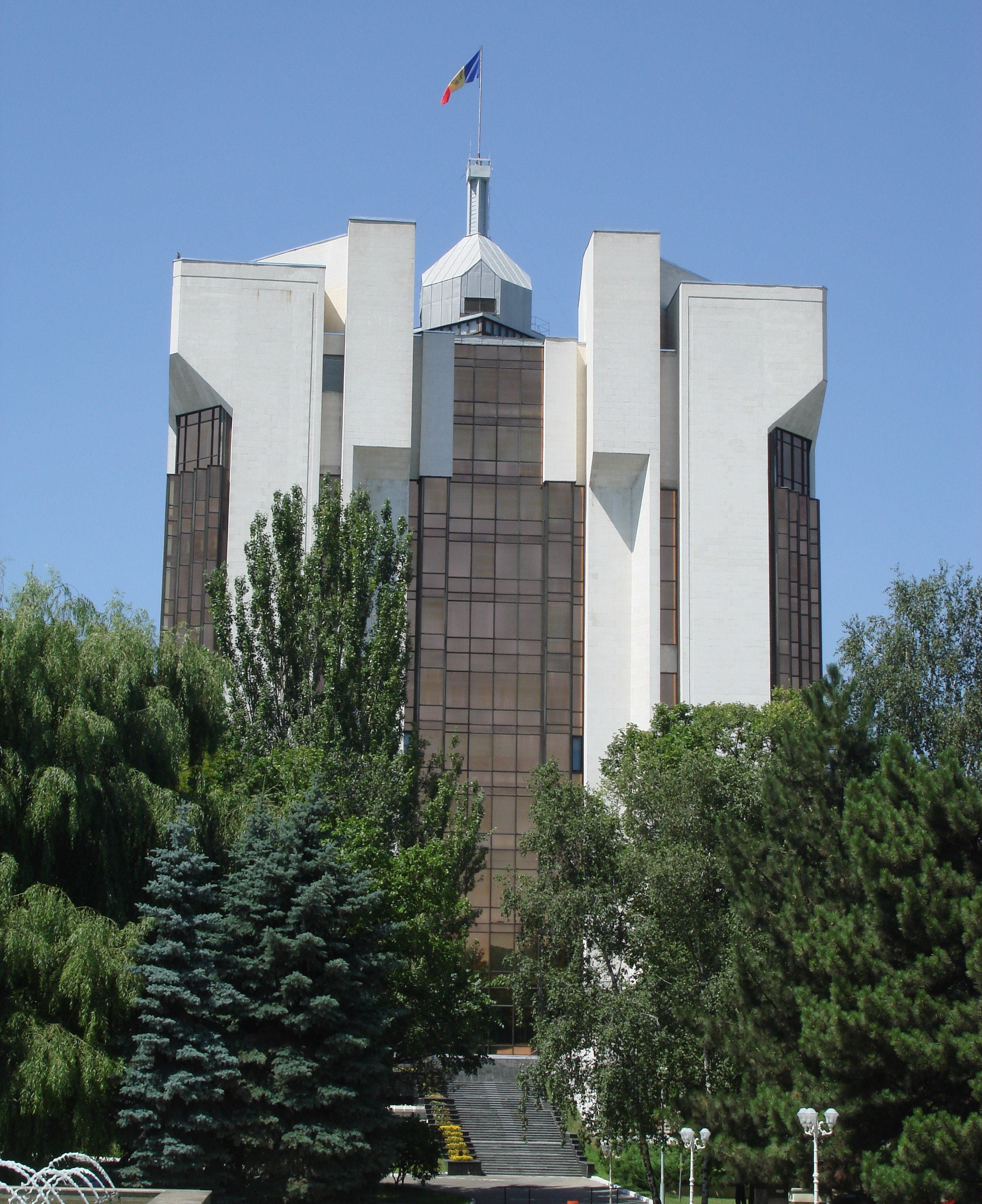 Presidential palace in Chisinau, Moldova